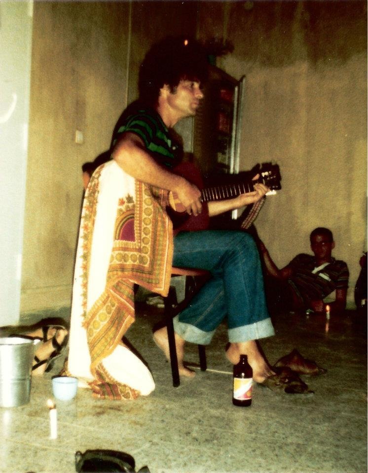 A '70s-era Meir Ariel show. Courtesy of Tirza Ariel.